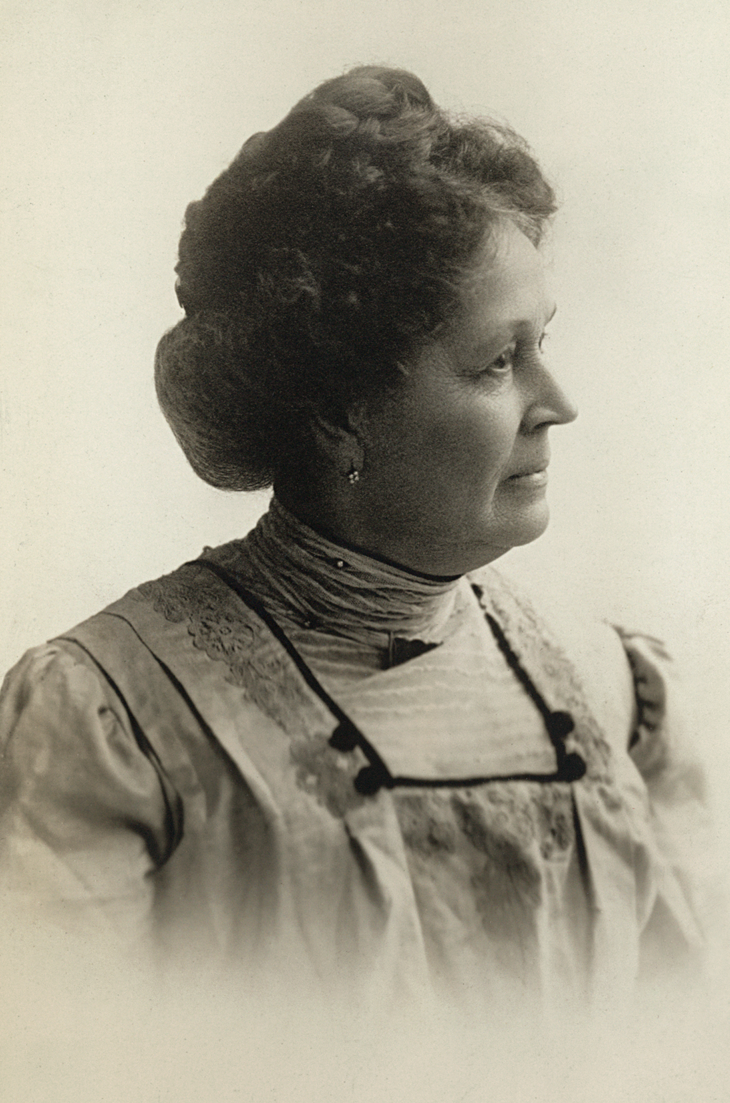 Emma Smith DeVoe (1848–1927). Library of Congress description: "Formal portrait, head and shoulders, Emma Smith Devoe of Seattle, Washington, facing front with head turned in profile to right, wearing high-neck collar." Note from the restorationist:' I don't normally approve of removing things that have been part of an image for a century, but the photographer's stamp in this case definitely hurt the image composition, so it seemed better to provide a version without.